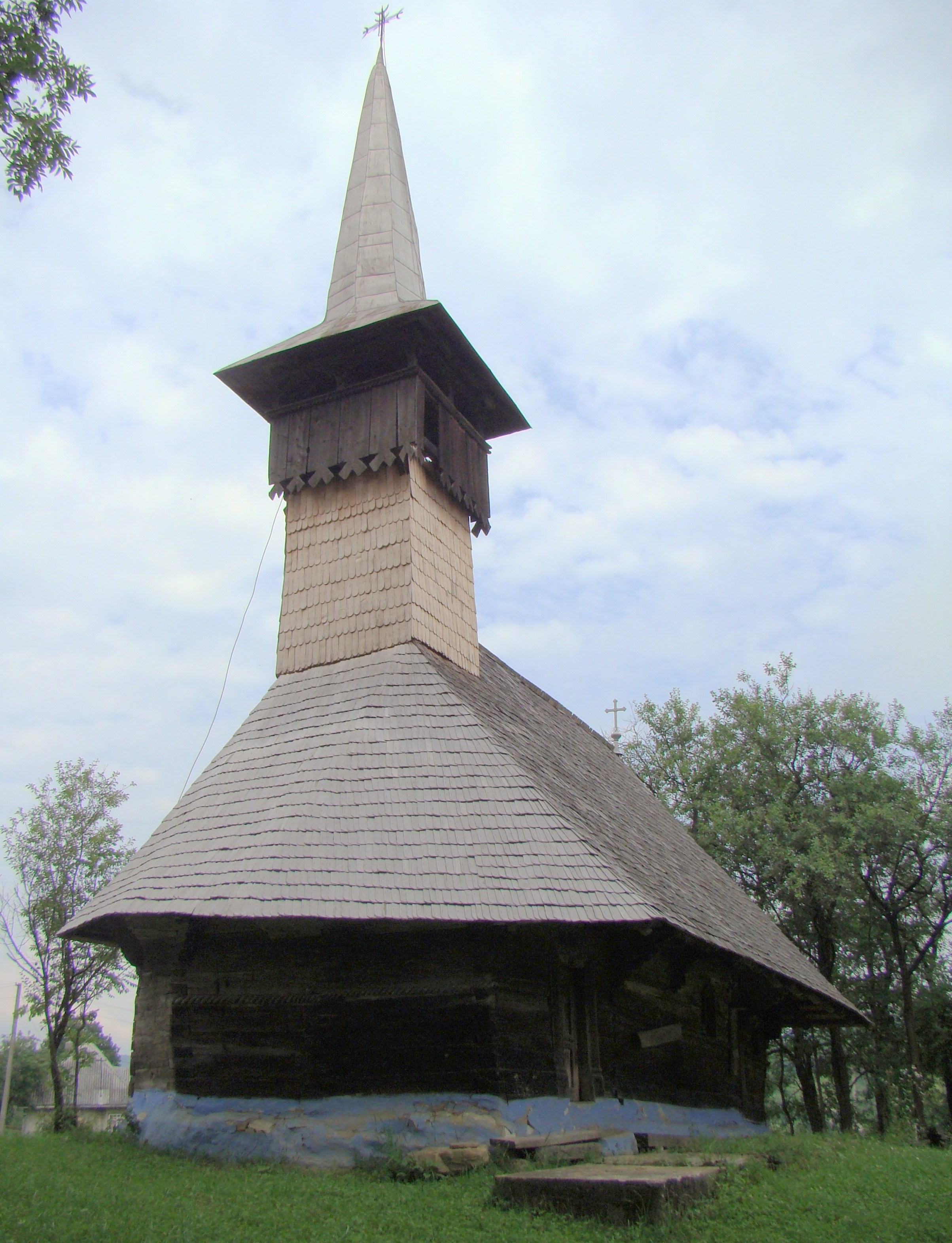 Wooden church in Dobricu Lăpușului. Maramureș county, Romania